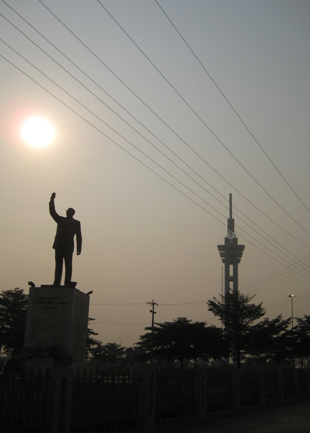 Tower of Limete in Kinshasa, OPatrice Lumumba statue